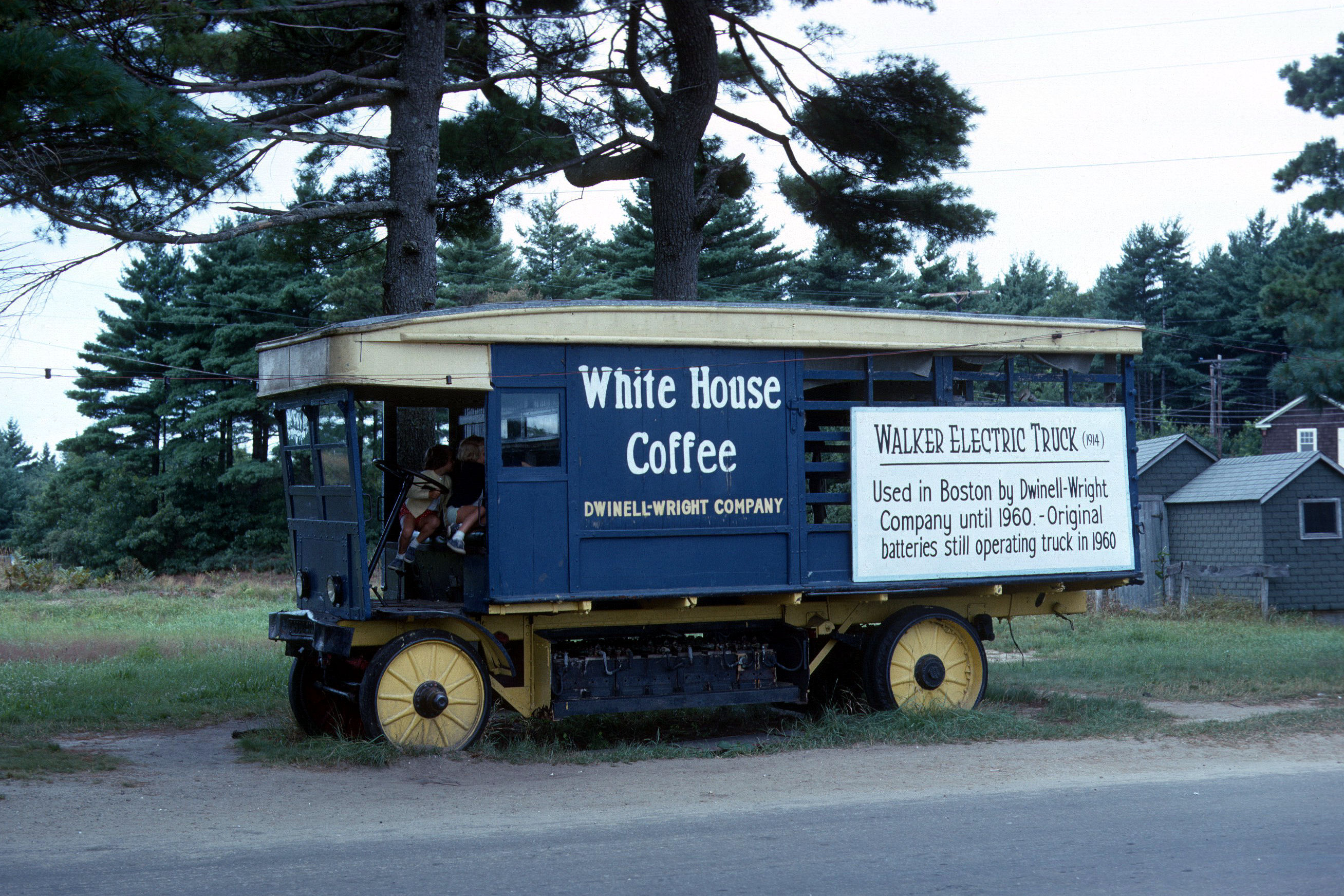 A 1914 Walker Electric Truck used by the Dwinell-Wright Coffee Co. of Boston, MA, USA displayed at Edaville Railroad in South Carver, MA, USA circa 1966. The truck was manufactured in Chicago.